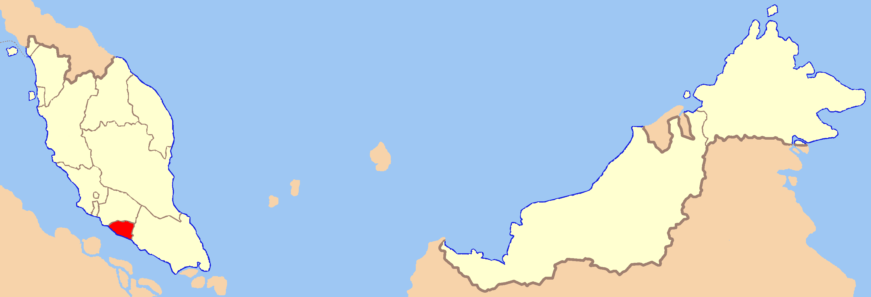 Map of Malaysia with Malacca highlighted